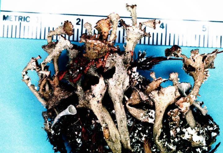 Cladonia cervicornis subsp. verticillata (Hoffm.) Ahti, 1980 (photograph of a herbarium specimen) Growing on soil on bank next to tennis court at Craftsbury Common Ski Center, Washington County, Vermont, USA; collected and identified by Elmer G. Worthley (No. L-17, 22 Sep 1985); specimen is now in the Lichen Herbarium of the New York Botanical Garden. (millimeter scale)